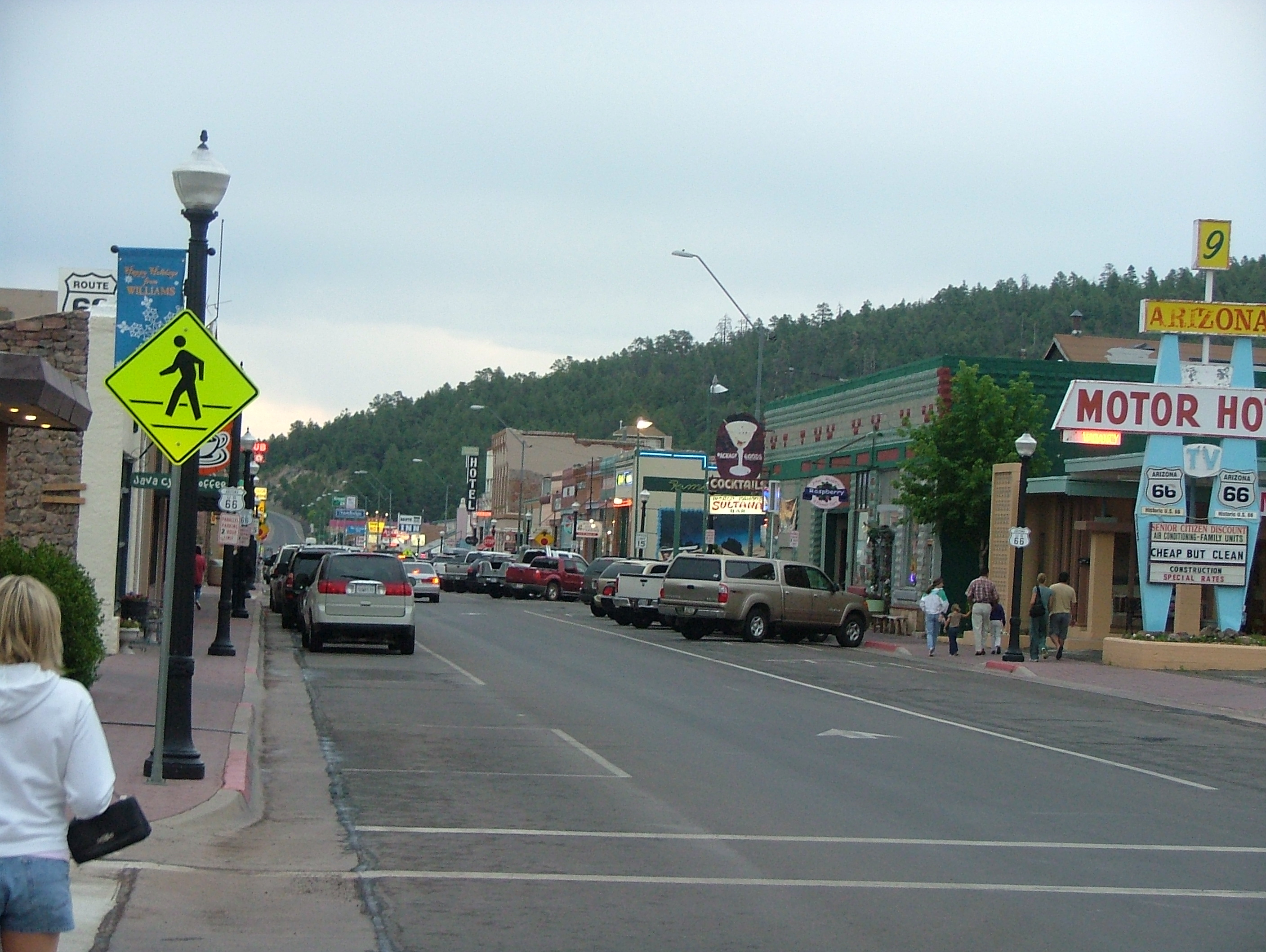 Route 66, Williams, AZ